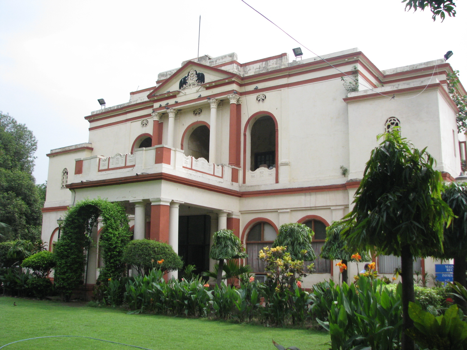 Cochin House in Kerala House campus